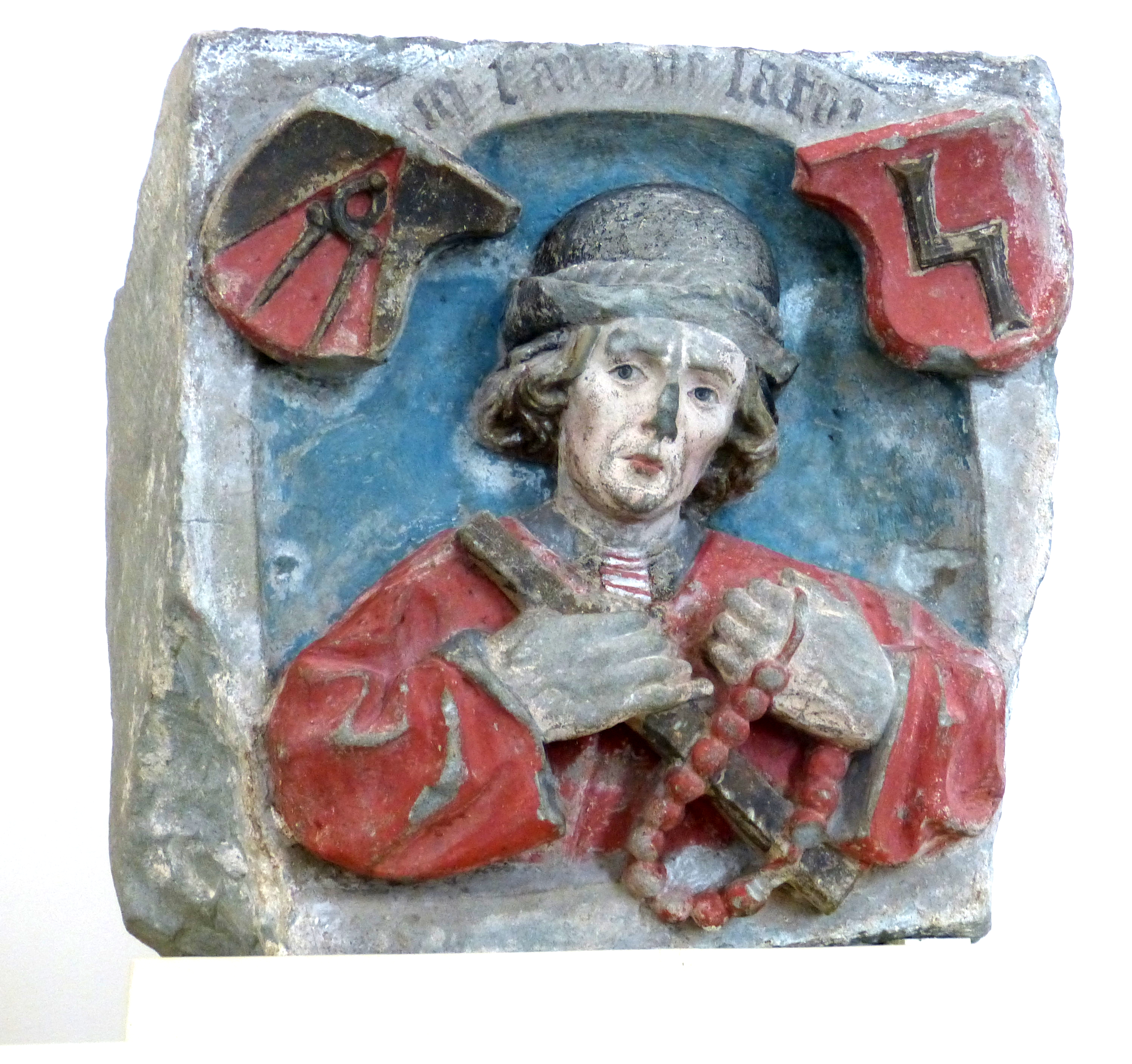 Salem ( Baden-Württemberg ). Monastery museum: Corbel figure ( 16th century ) showing Hans Saphoy, stonemason from Salem.